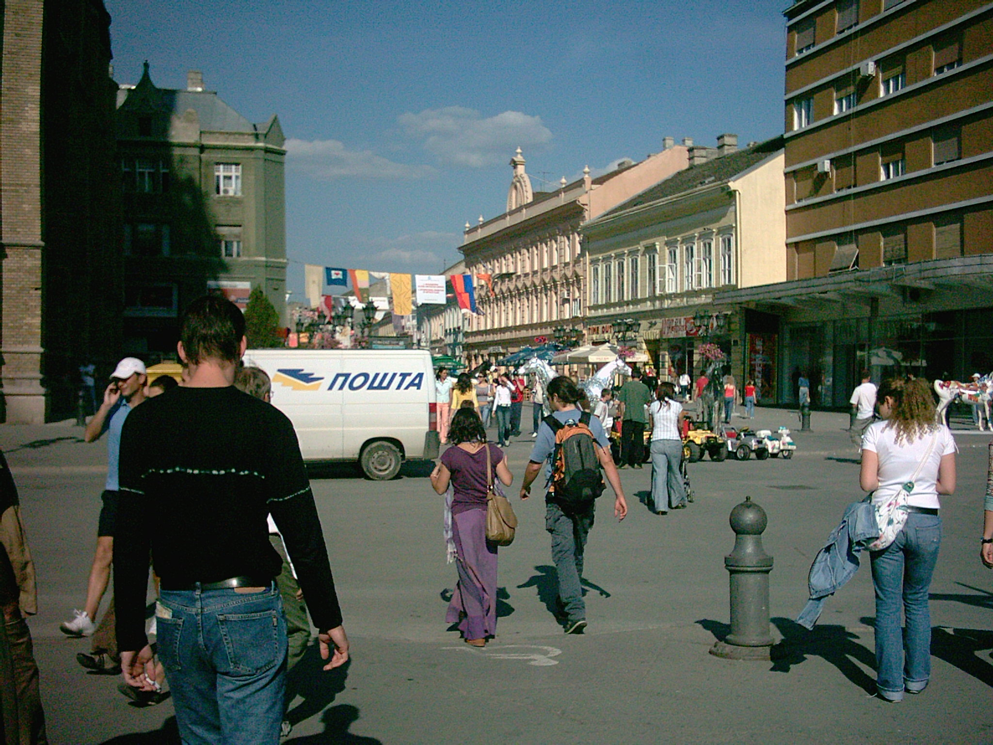 Zmaj Jova's street in Novi Sad, Vojvodina, Serbia.